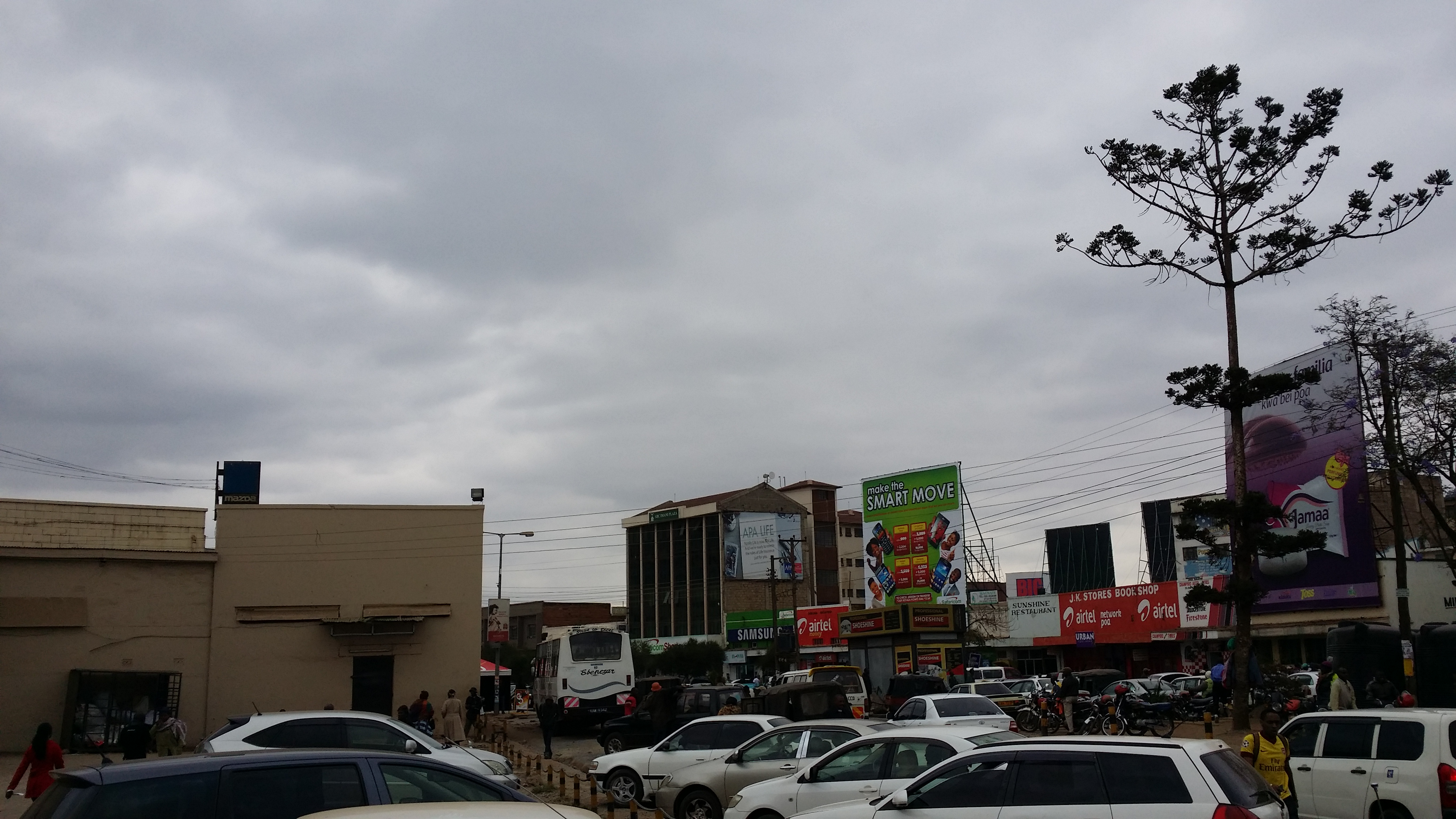 Machakos Town Kiswahili: Mji wa Machakos